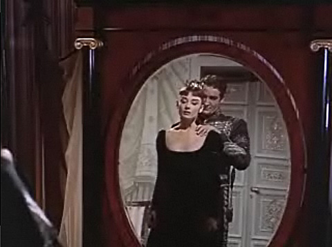 Cropped screenshot of Audrey Hepburn and Vittorio Gassman from the trailer for the film War and Peace.